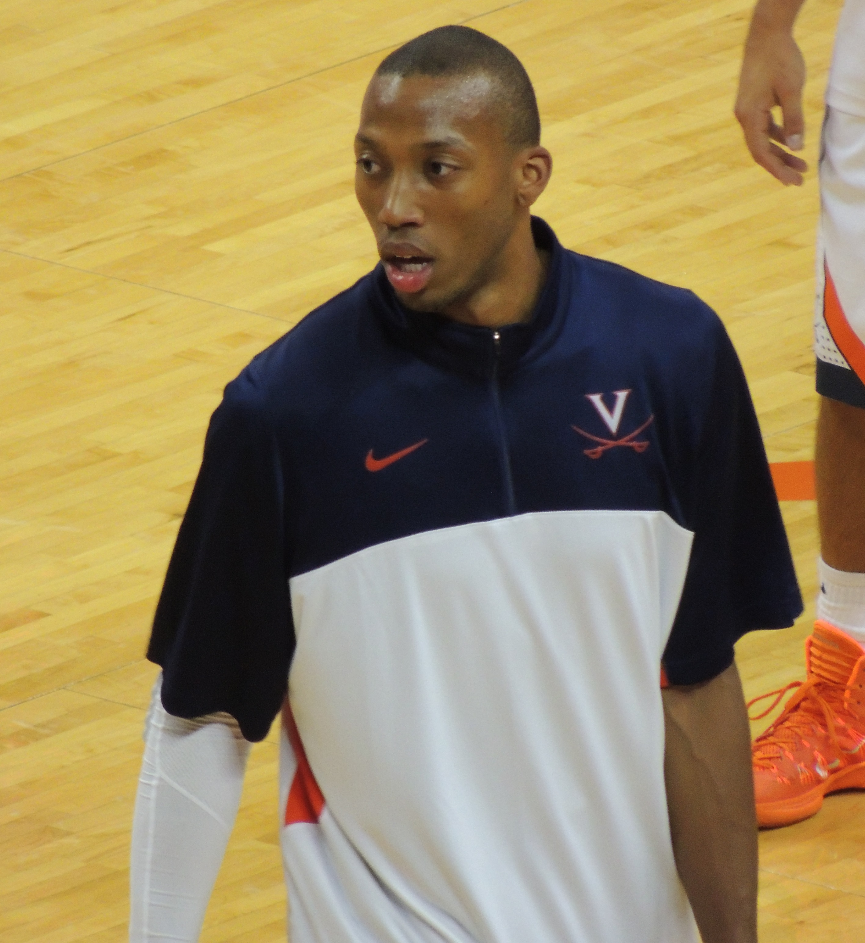 American basketball player Akil Mitchell warms up before a game in 2013